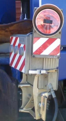 F.R.E.D. Flashing Rear End Device A device with a flashing red light mounted on the rear of a train to signal the end of the train. This device also handles other critical tasks as well. See the FRED article for details. Author: Randall J. Berry Dp67 Usage: May be freely used for any Wiki-trains project.